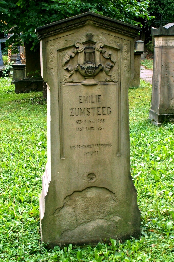 Grave of Emilie Zumsteeg on the Hoppenlau graveyard in Stuttgart, Germany